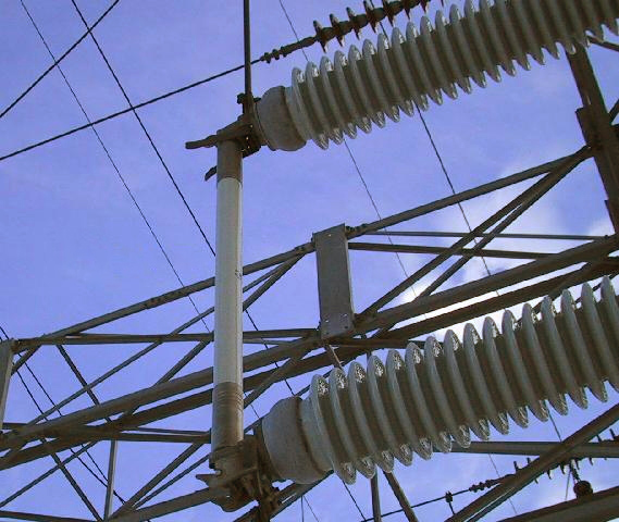 A 115 kV fuse protecting an instrument transformer at Slave Falls Generating Station, Manitoba. The fuse element is the white tube.